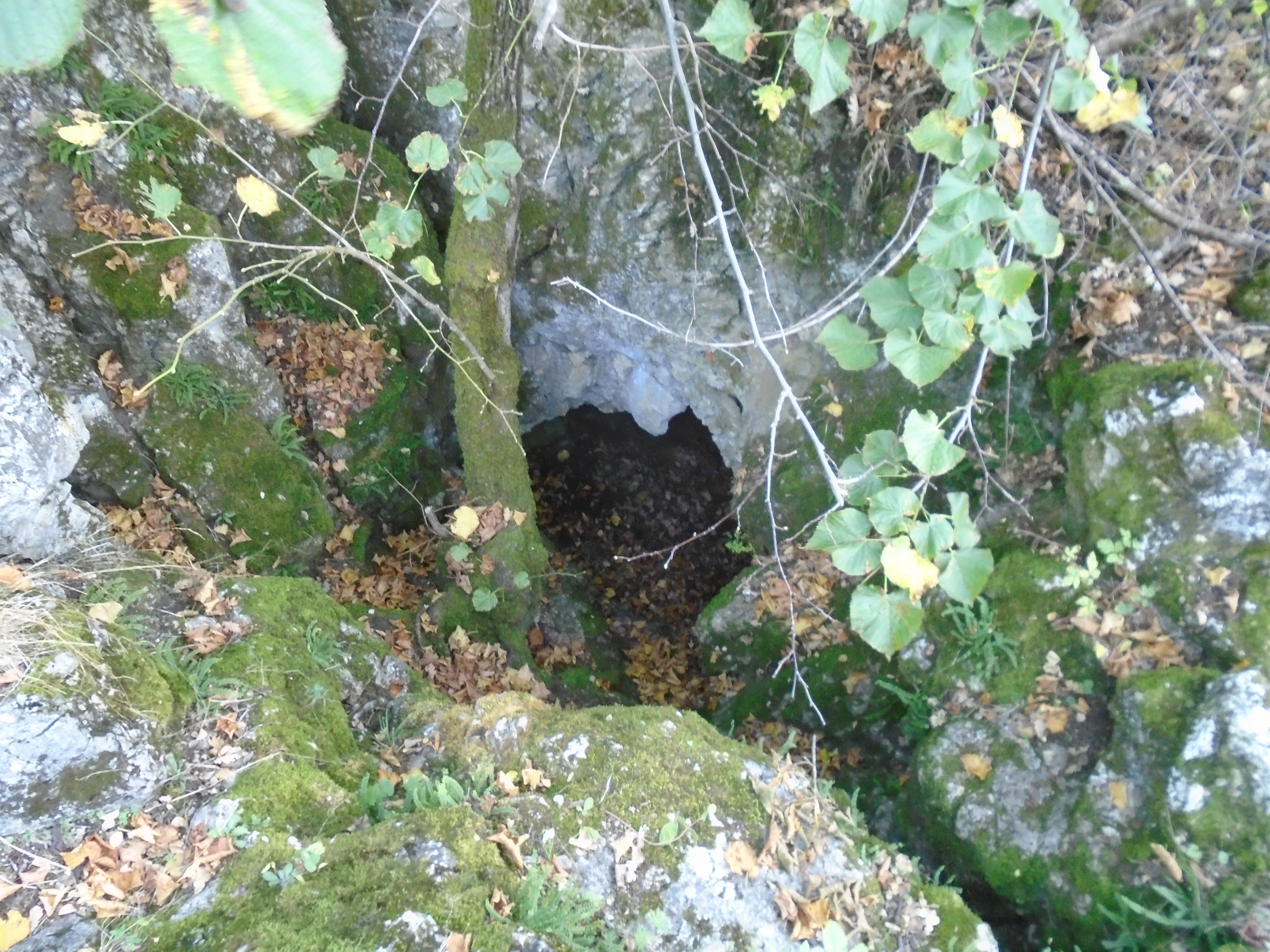 Entrance of Hét Hole.